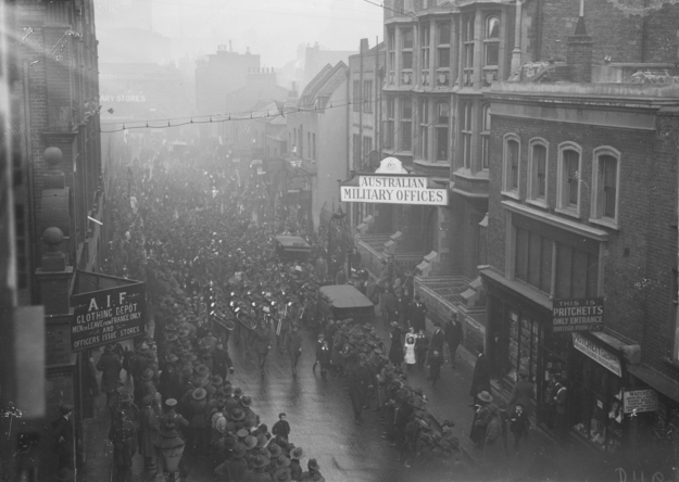 Australian prisoners of war, repatriated from Germany, marching down Horseferry Road, to Administrative Headquarters, to report and receive an issue of fresh clothing, etc. The street is lined with people and a band leads them down the road. The sign on the left reads: 'AIF Clothing Depot. Men on leave from France only and Officers Issue Stores'.